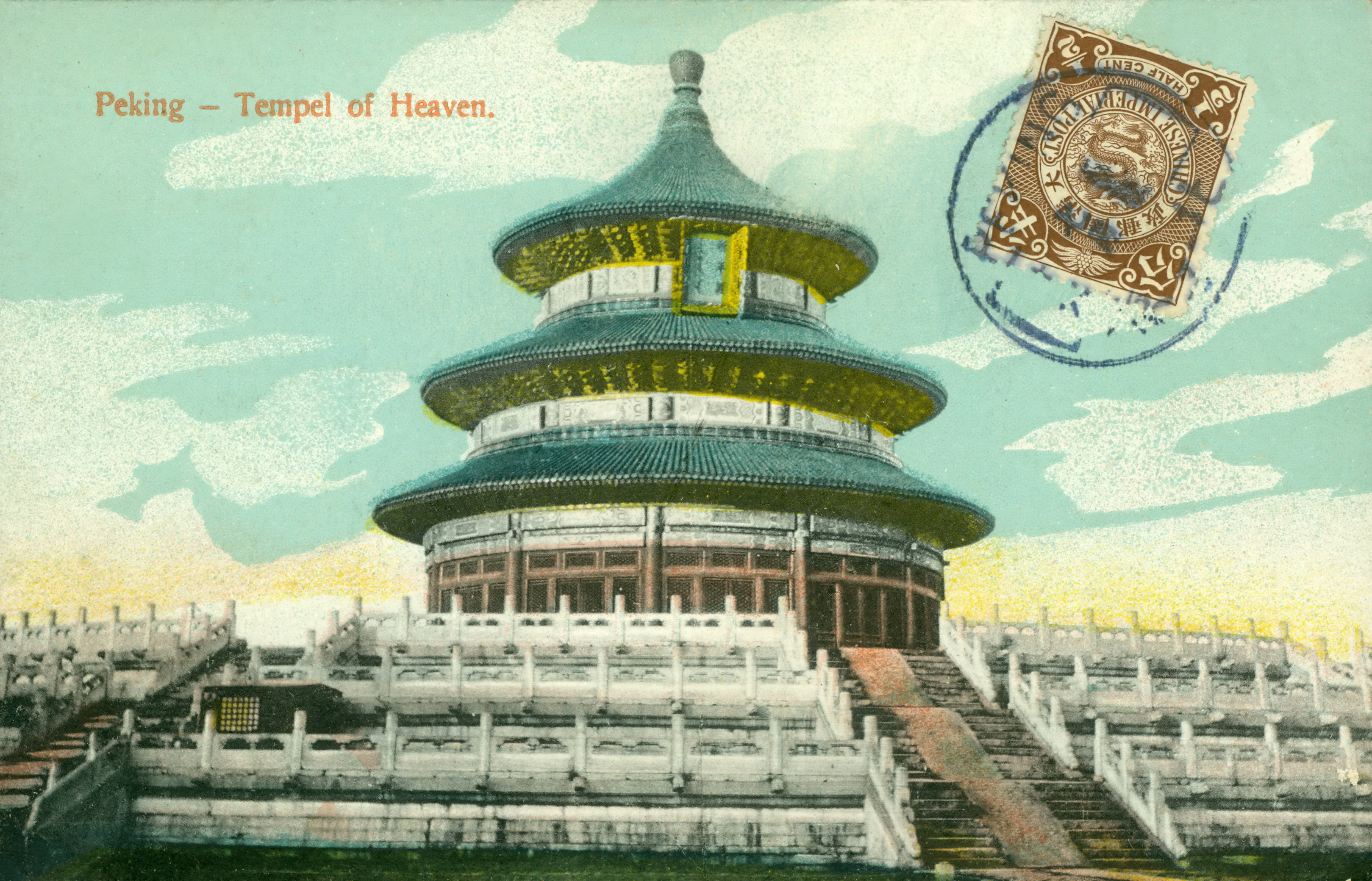 "Peking - Temple of Heaven." Postcard with canceled stamp from Beijing (using its older transliteration, Peking) in China from 1898.